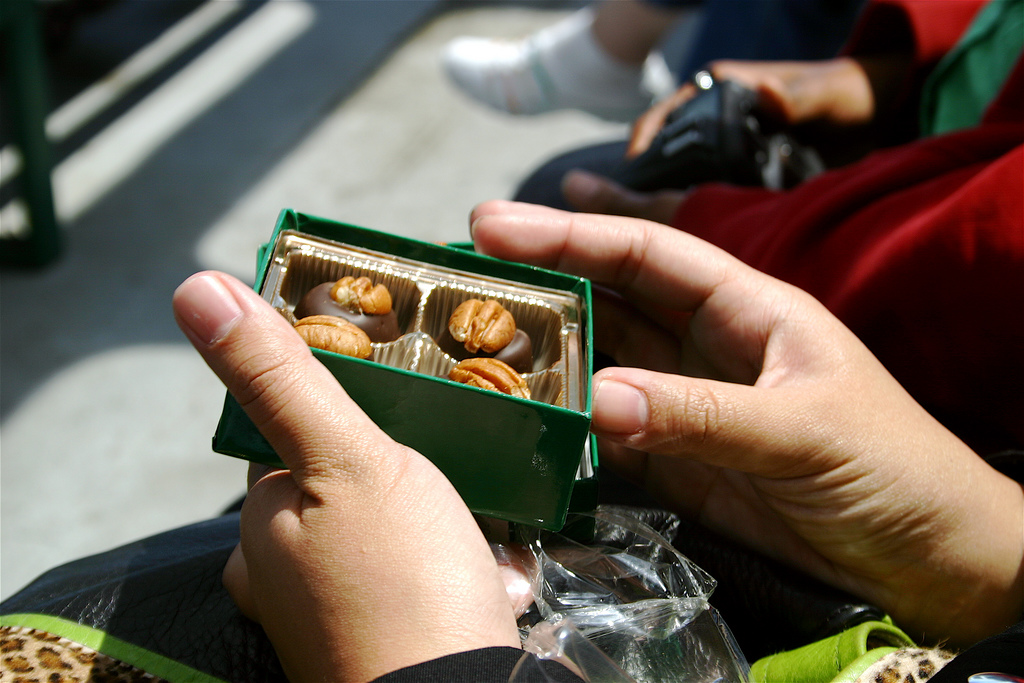 Pecan bourbon balls made by Woodford Reserve Bourbon Distillery